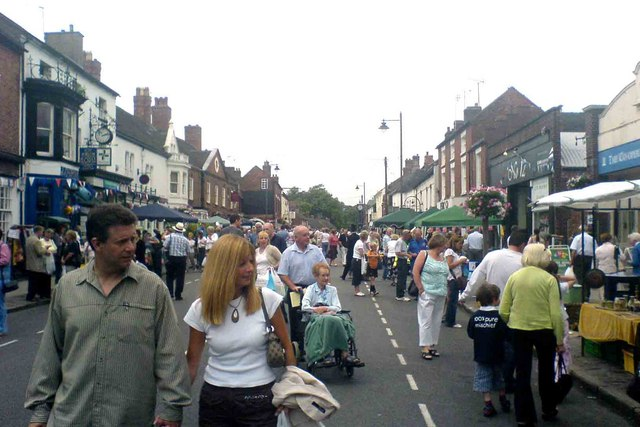 Eccleshall Victorian Street Market